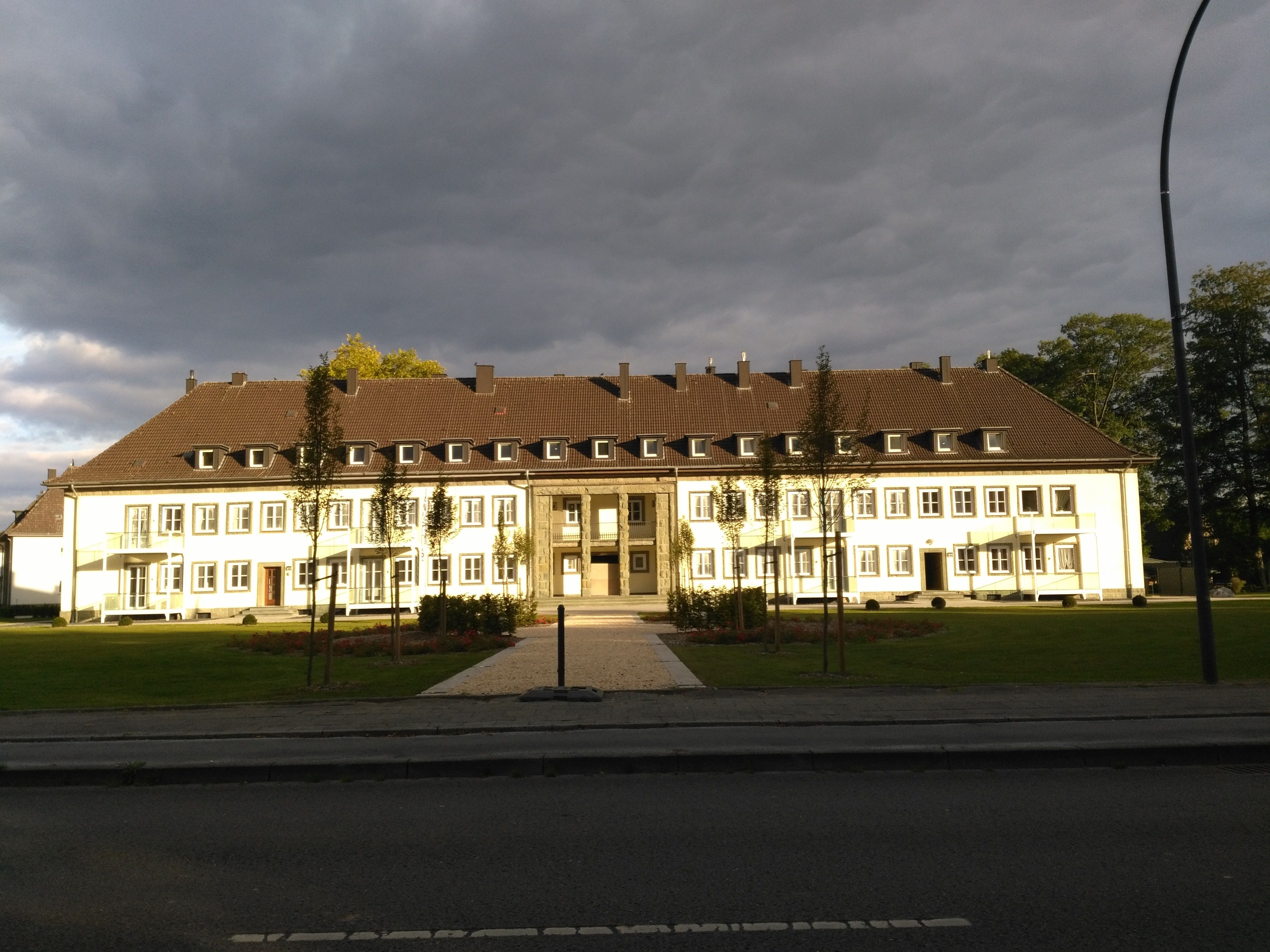 Buildings of former "Luftwaffenkaserne" Lippstadt-Lipperbruch